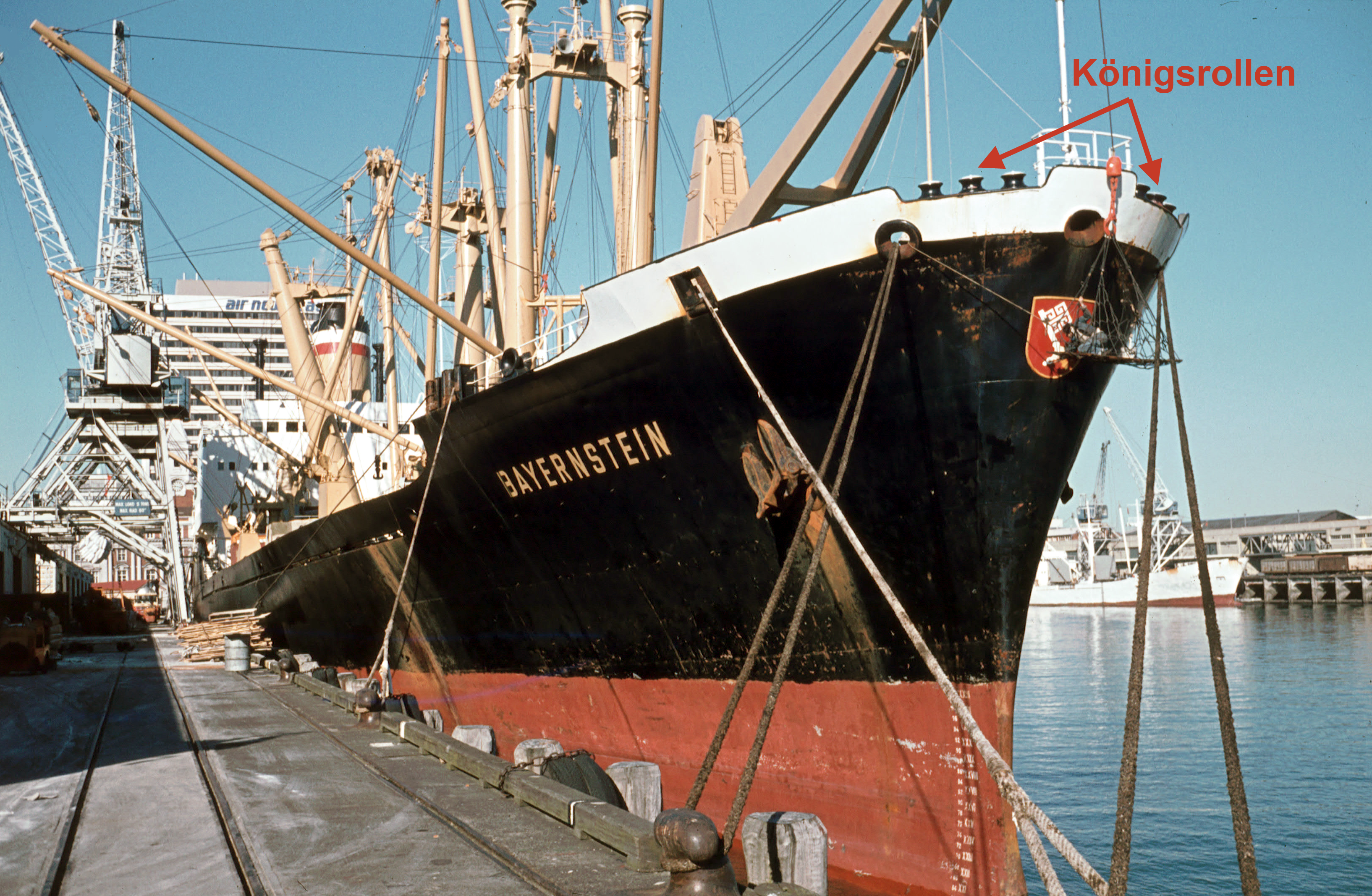 King rollers on the bow of a cargo ship